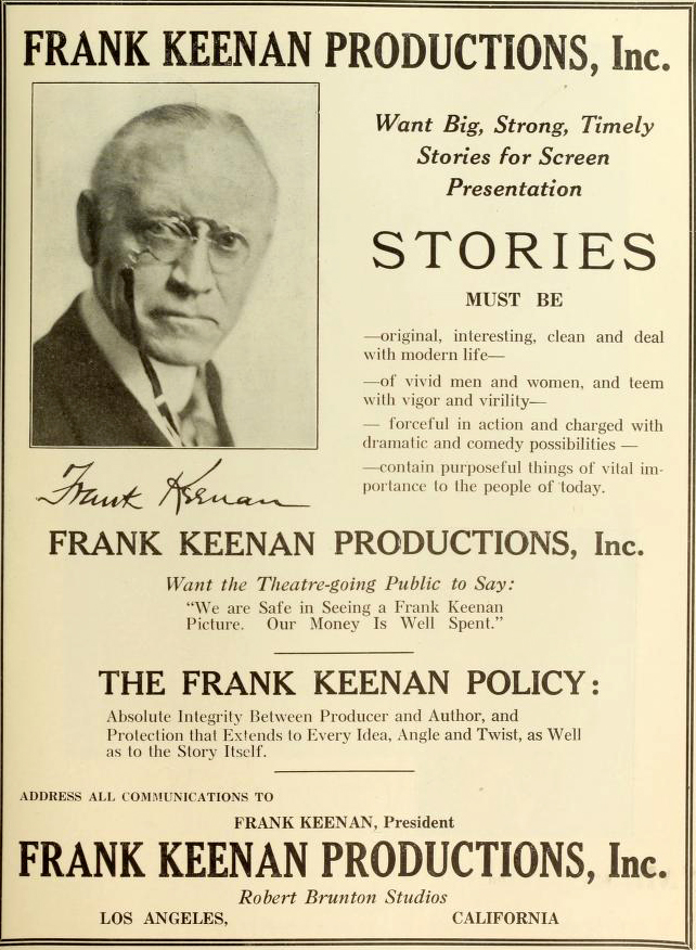 Advertisement in Moving Picture World, May 1919